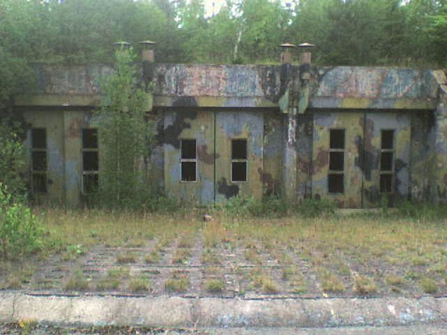 Military Area of Brdy, the Czech Republic